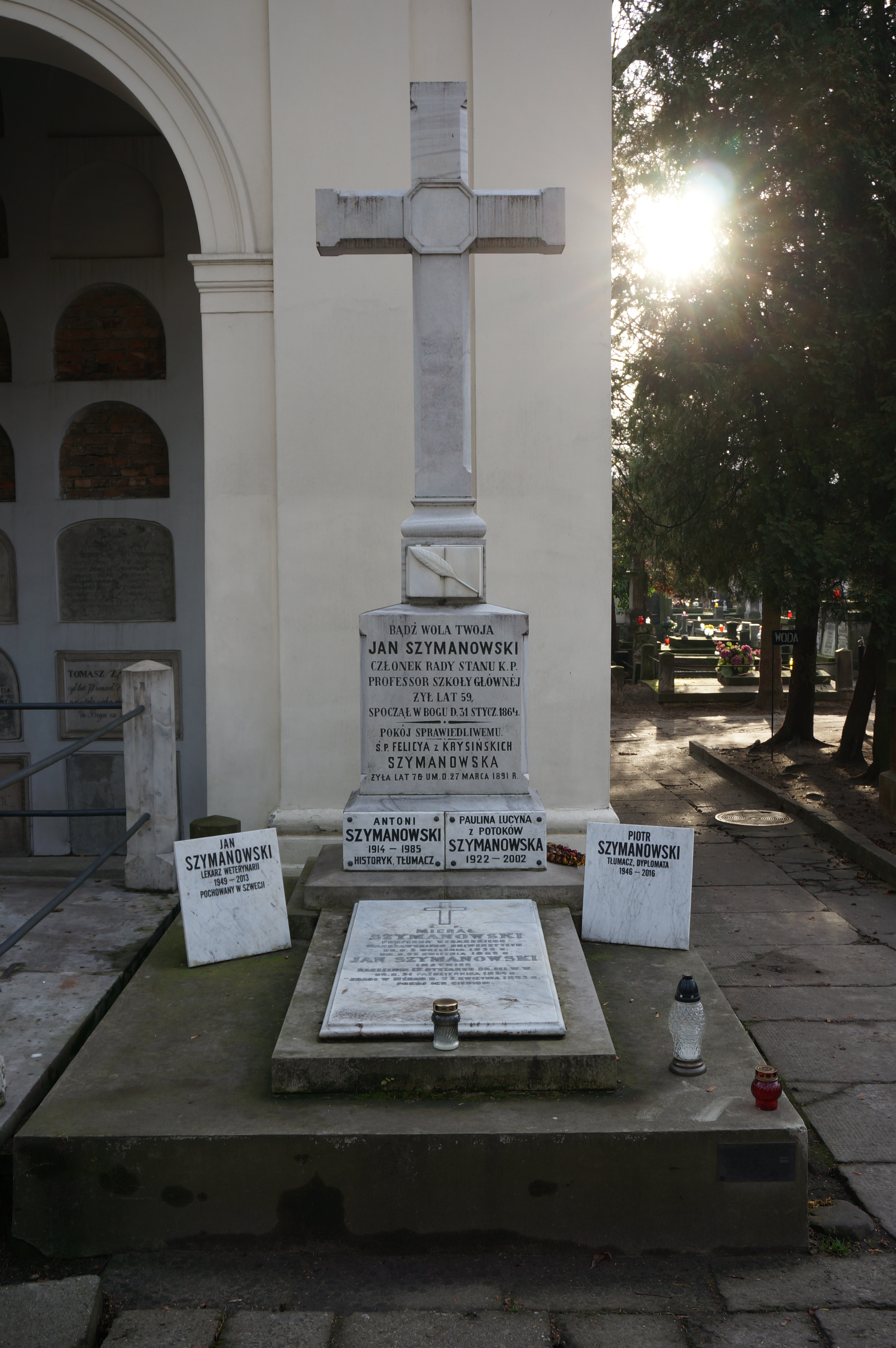 The grave of Zofia Chądzyńska at the Powązki Cemetery (section Under the catacombs, row 1, grave 173, 174)